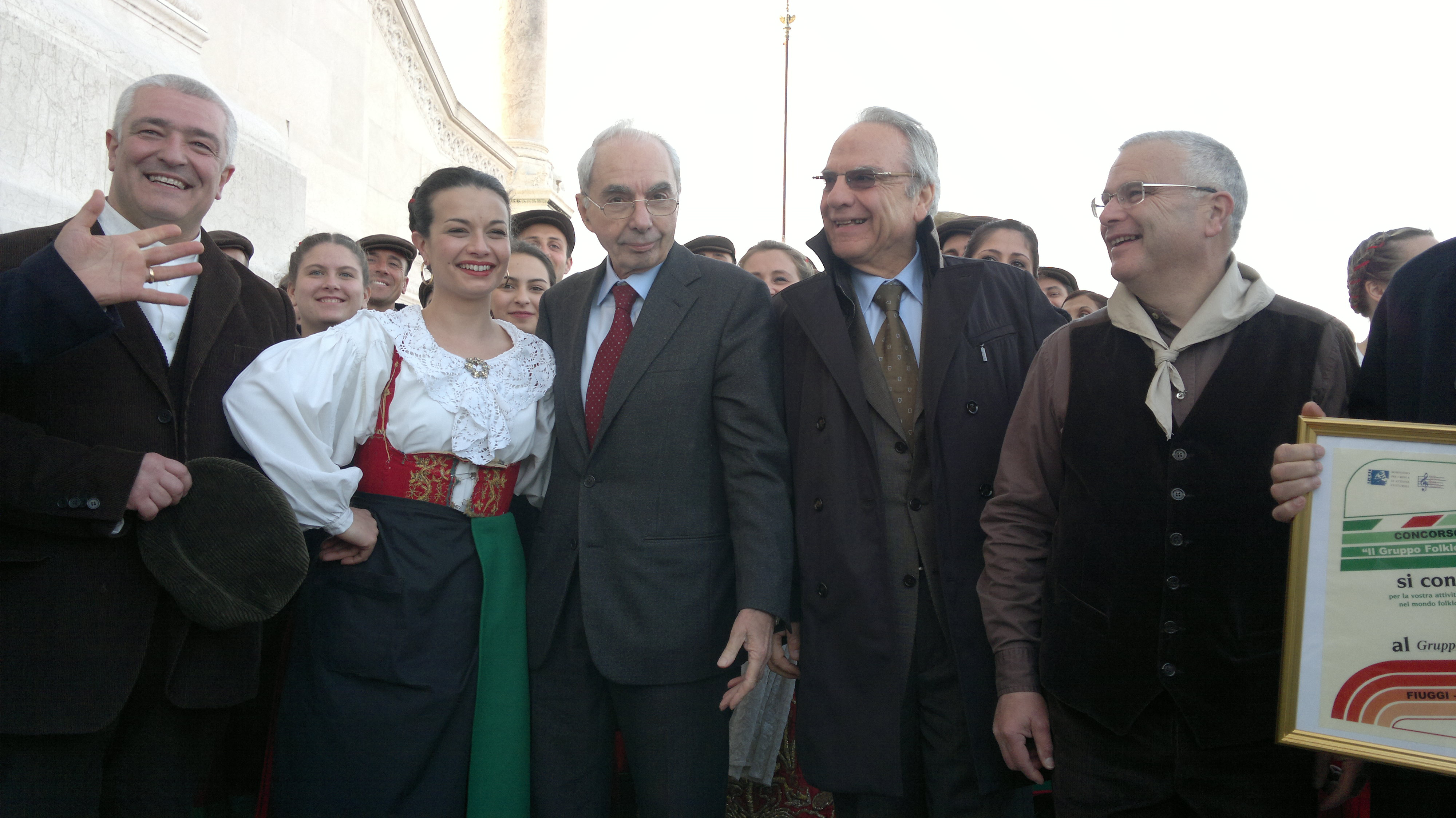 The folkloric group "Pro Loco Pollino" Castrovillari (Cosenza) at the Vittoriano in Rome, was rewarded by President Giuliano Amato with a certificate as an honorary winner for the corresponding category of the National Competition for the 150 anniversary of the unification of Italy. March 17, 2012.